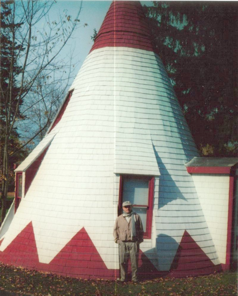 Indian office in Indian Island, Old Town, Penobscot County, Maine, U.S. Photo maked by my: 16-10-2000